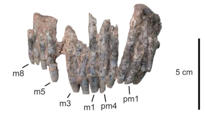 Isolated upper tooth row of Bajadasaurus pronuspinax (MMCh-PV 75), showing premaxillary teeth (pm1–5) and maxillary teeth (m1–m8).